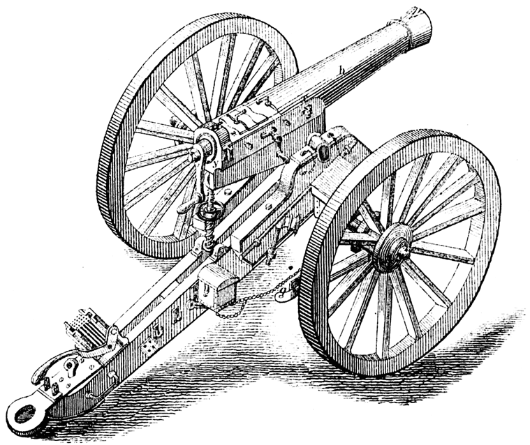 Isometric view of Reffye mitrailleuse